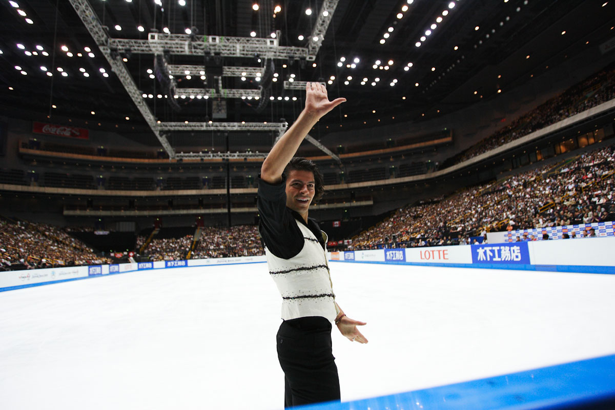 OCTOBER 3, 2009 - Figure Skating : Stéphane Lambiel of Switzerland in the Free Skating during the Japan Open 2009 at Saitama Super Arena on October 3, 2009 in Saitama, Japan. (Photo by Tsutomu Takasu)